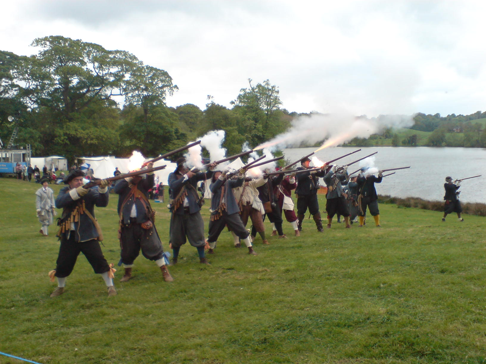 Musketeers in Marbury